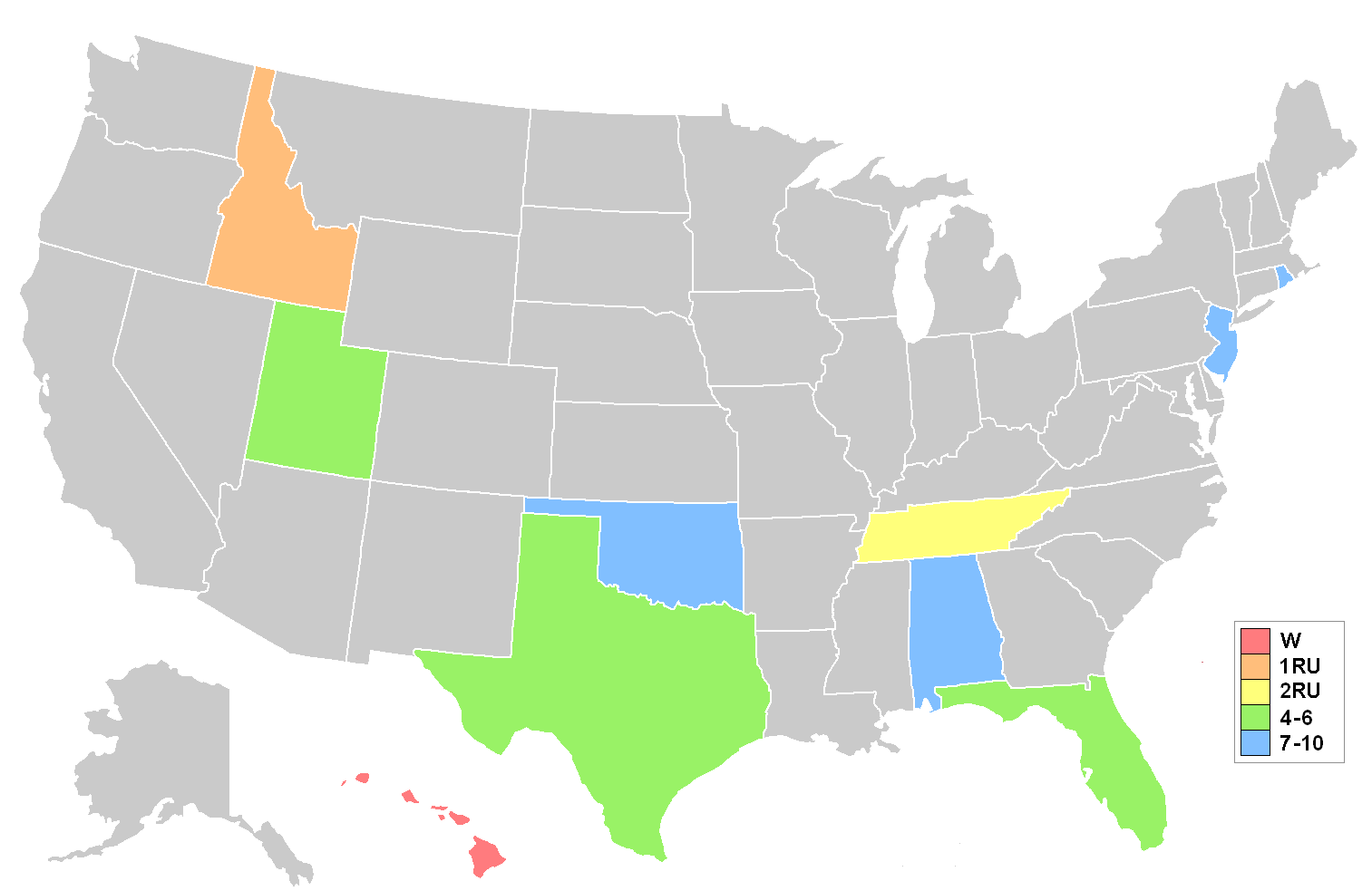 Map showing placements at the Miss USA 1997 pageant. Key on graphic shows colour coding for break down of placements.